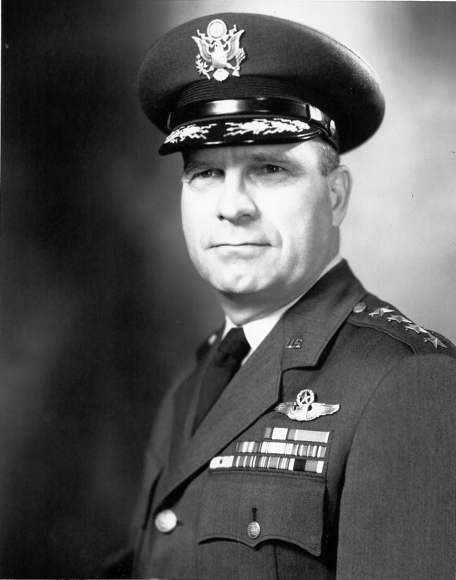 GEN Orval Ray Cook, USAF